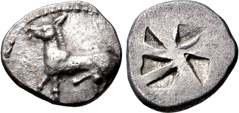 MACEDON, Mende. Circa 510-480 BC